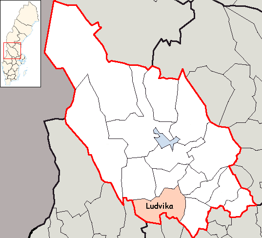 Ludvika Municipality in Dalarna County Designd by me, based on Image:Dalarna County.png